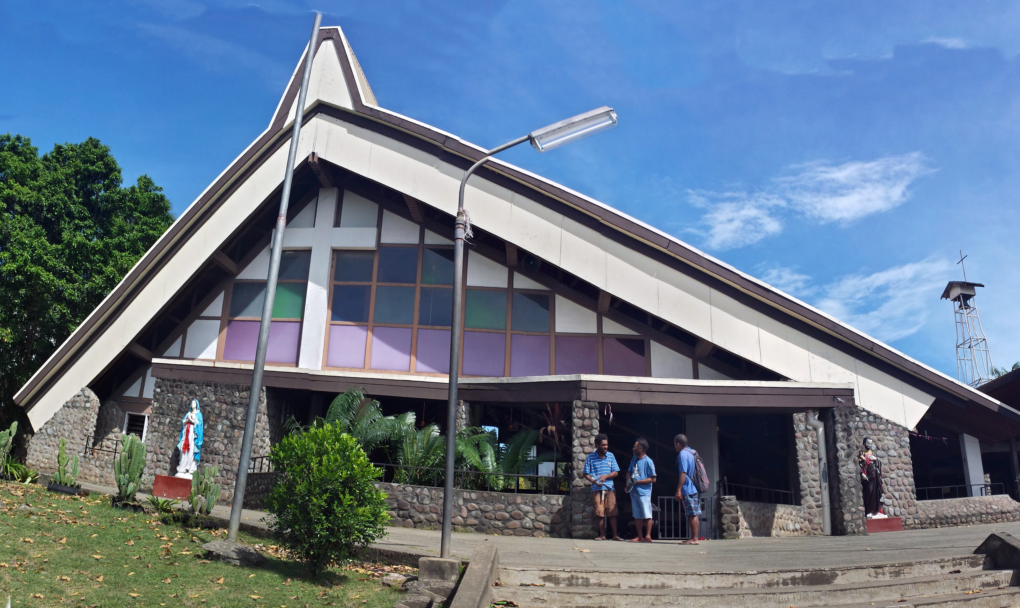 Holy Cross Cathedral, St Mary Catholic. Front view. Honiara